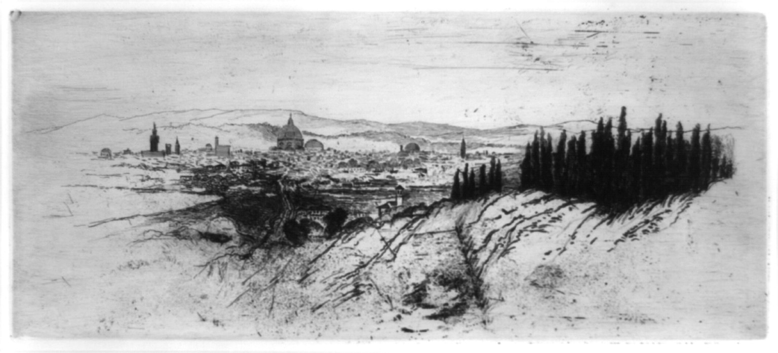 Title: View of Florence, 1886, from Maiano, [Italy] Abstract/medium: 1 print : etching.